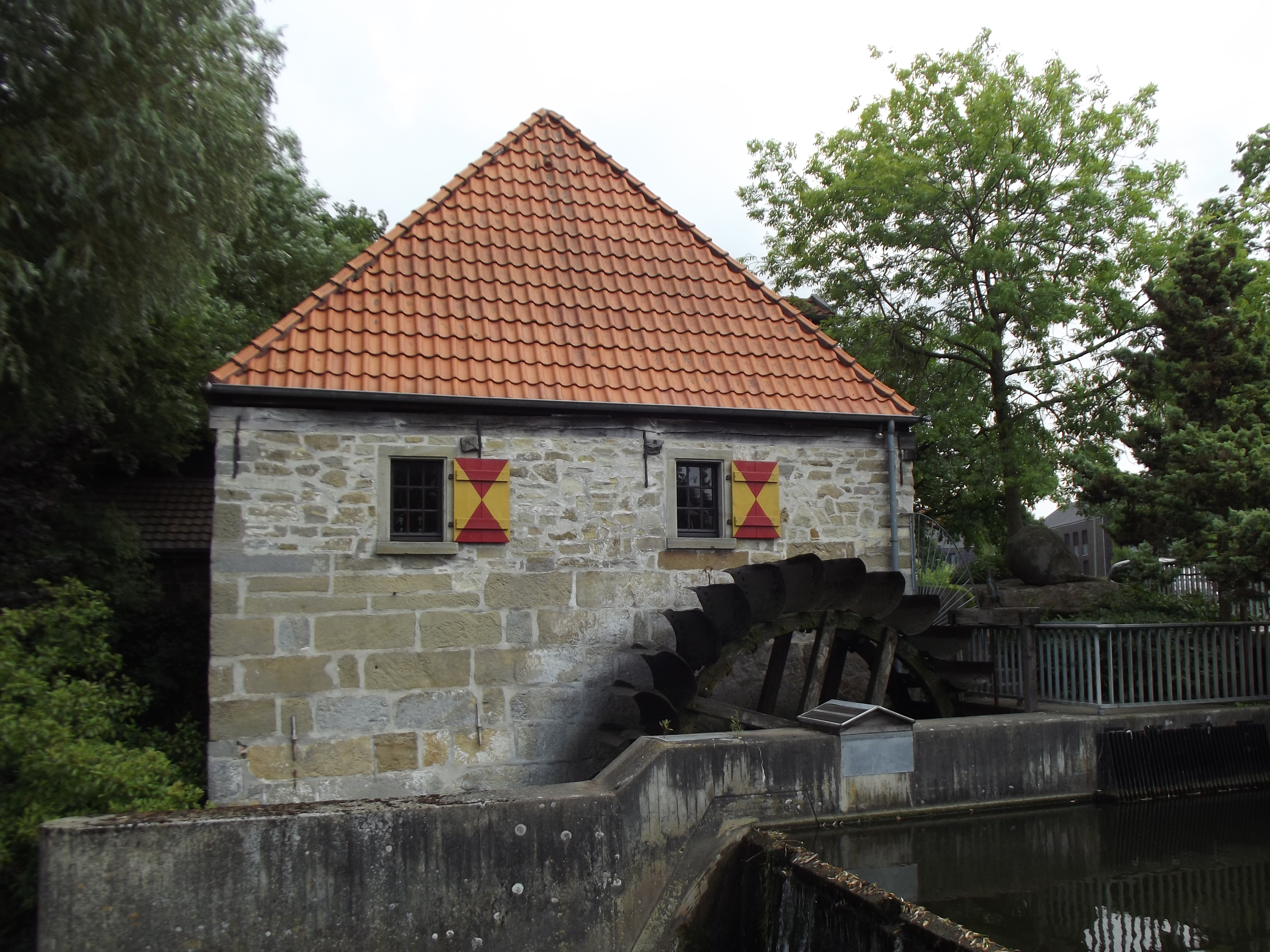 The Niedermühle (subject of a German Wiki article) was built to support the "Schlossmühle". The mill works again. (The mill wheel rotated when I took the picture)